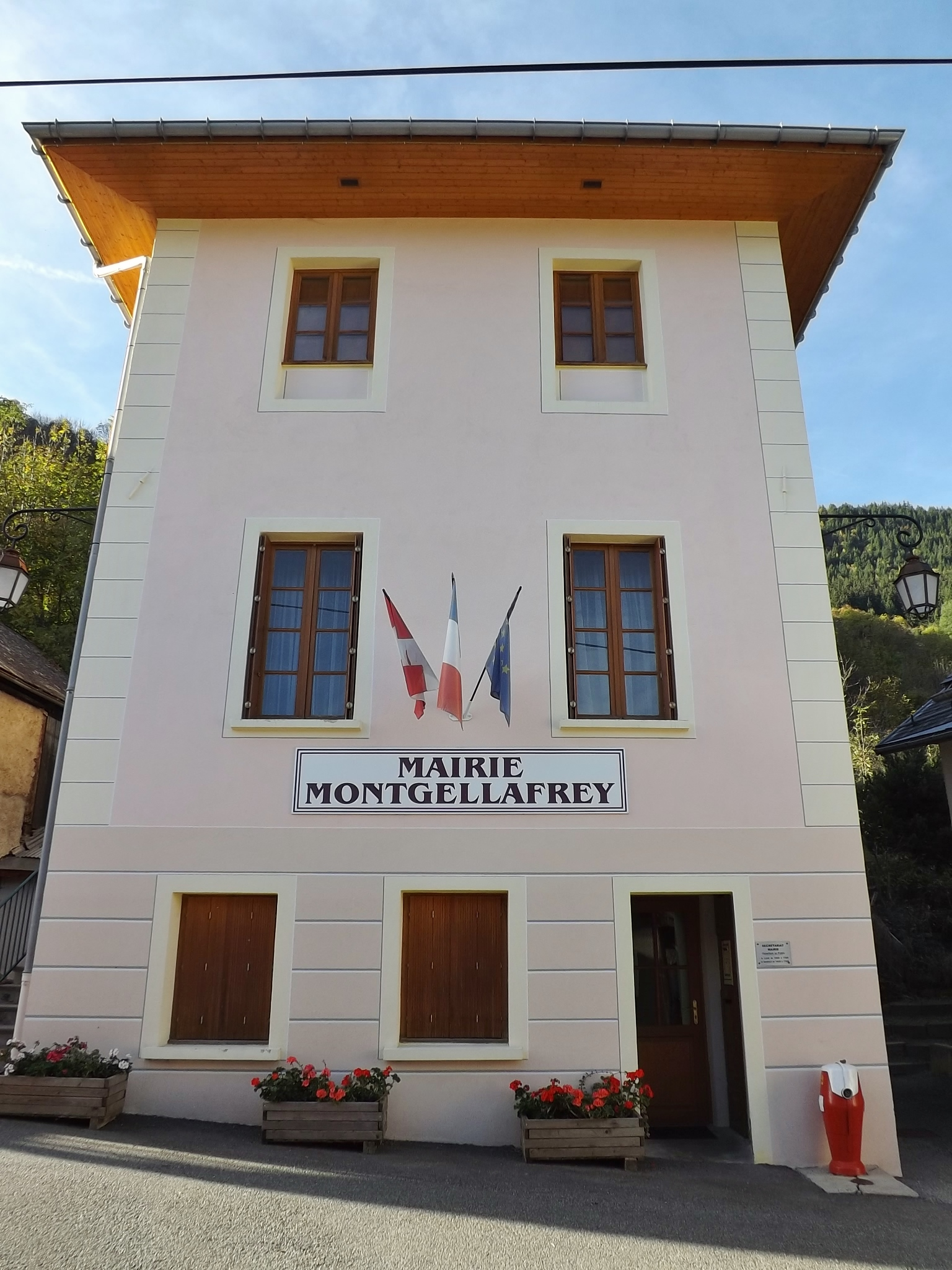 Sight of the commune of Montgellafrey city hall, in the Lauzière mountains of Savoie, France.